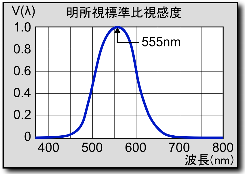 Luminosity function, or Photopic luminous efficiency function